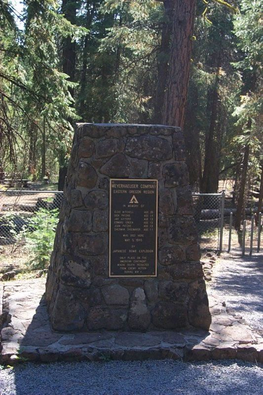 The Mitchell Monument in the Fremont-Winema National Forests near Bly, Oregon, United States. The Mitchell Recreation Area is listed on the US National Register of Historic Places (NRHP) as the only location in the continental US where Americans died due to enemy action during World War II.